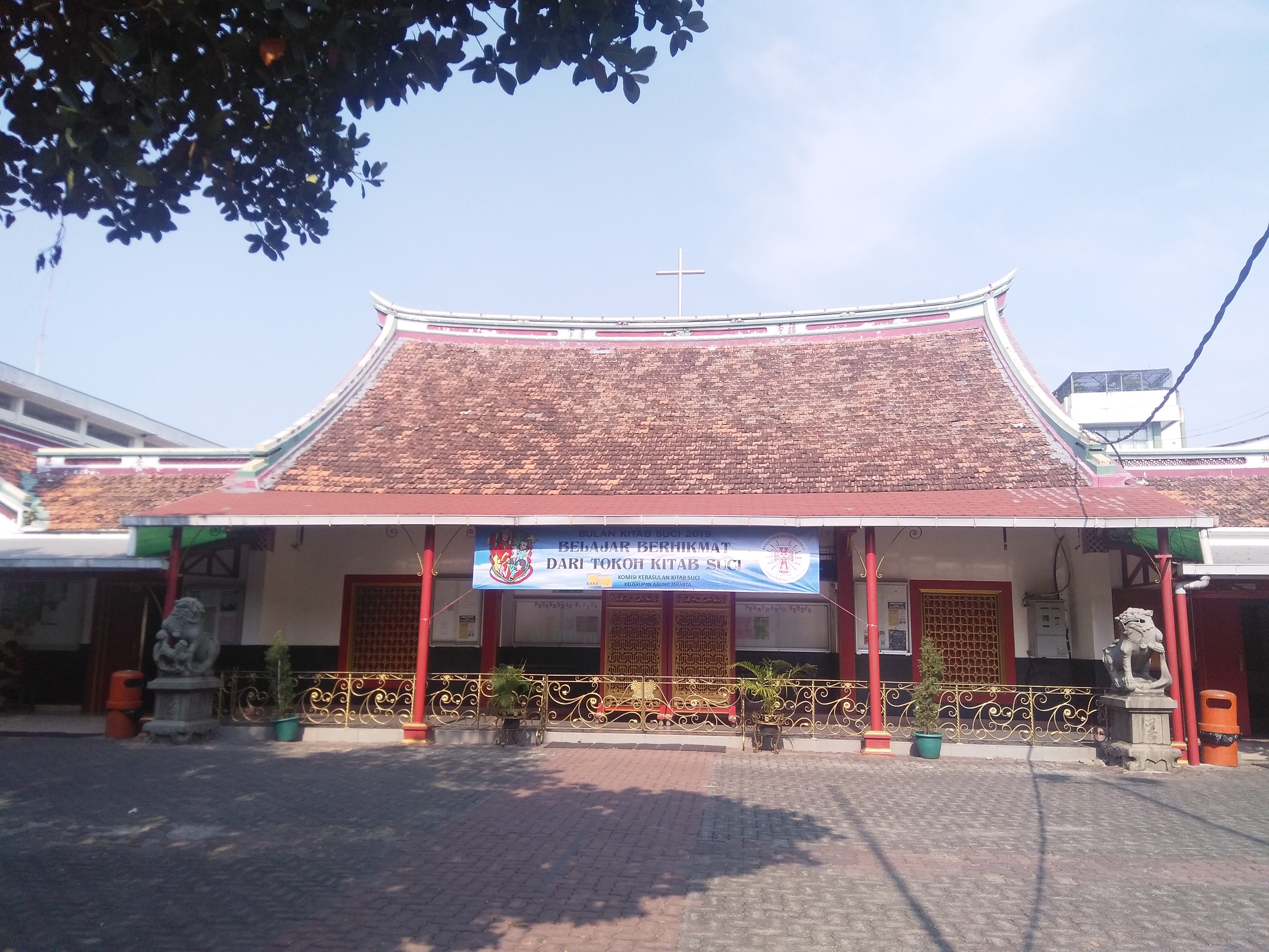 Santa Maria de Fatima Roman Catholic Church, Jakarta, with Chinese characters 福壽康寧 / hok-siū khong-lêng （written from left to right according to chengyu rule）above its rooftiles.